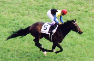 ディープインパクト（日本ダービー・東京競馬場、2005年5月29日撮影）撮影者:Goki Deep Impact, takes a picture in Tokyo Racecourse on May 29, 2005.